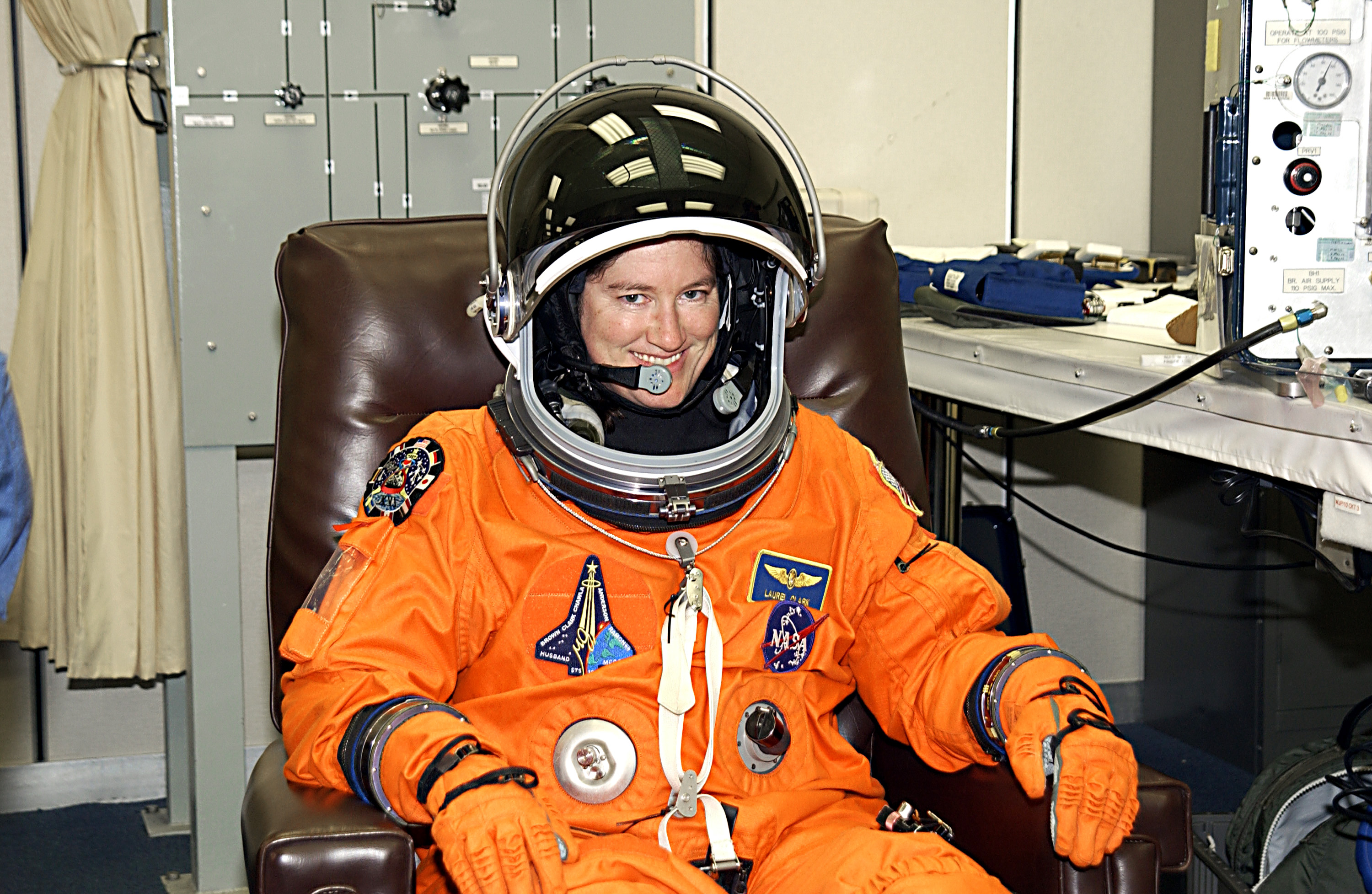 KENNEDY SPACE CENTER, FLA. - STS-107 Mission Specialist Laurel Clark gets a final fitting on her launch and entry suit as part of launch preparations. STS-107 is a mission devoted to research and will include more than 80 experiments that will study Earth and space science, advanced technology development, and astronaut health and safety. The payload on Space Shuttle Columbia includes FREESTAR (Fast Reaction Experiments Enabling Science, Technology, Applications and Research) and the SHI Research Double Module (SHI/RDM), known as SPACEHAB. Experiments on the module range from material sciences to life sciences. Launch is scheduled for Jan. 16, between 10 a.m. and 2 p.m.